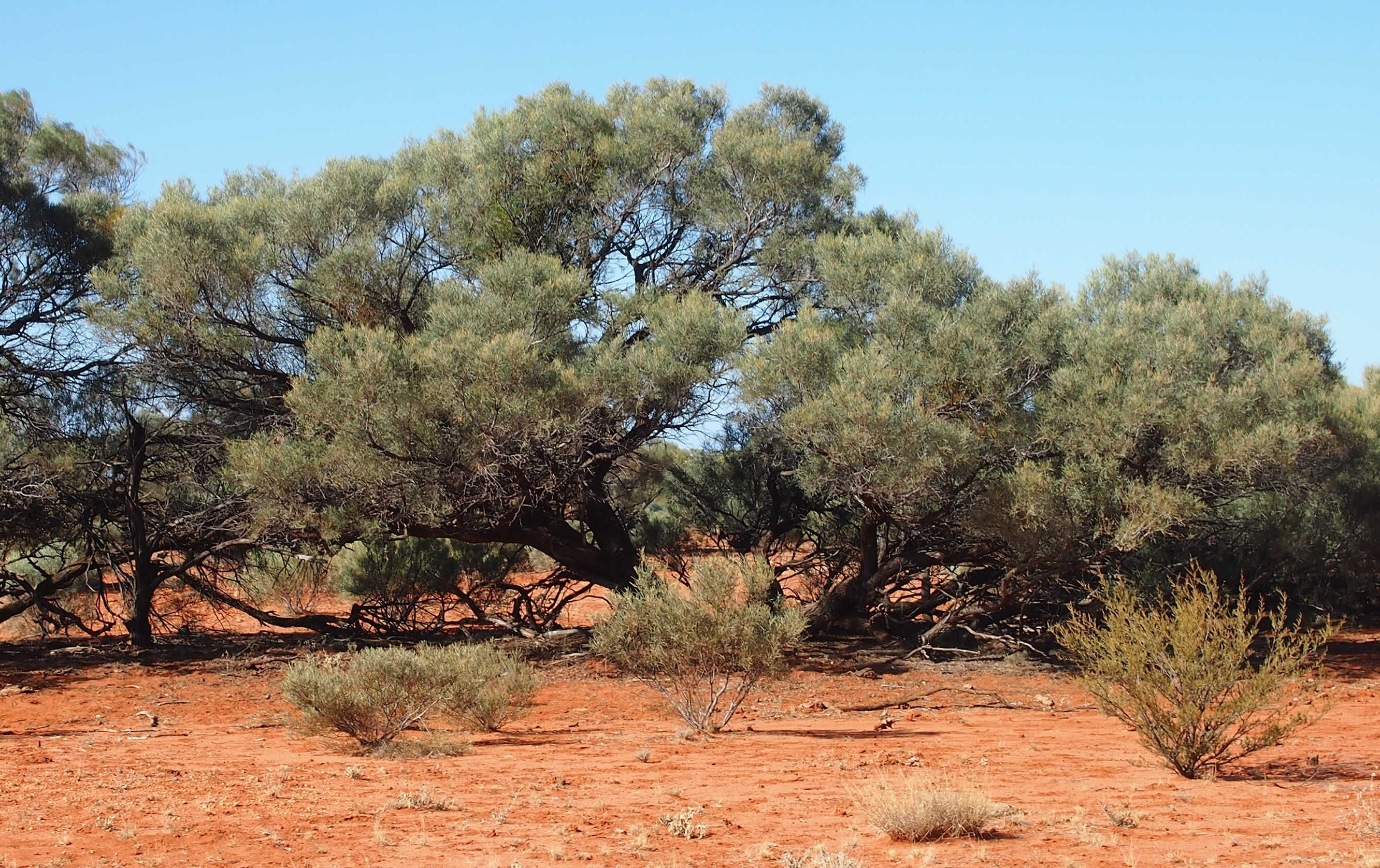 Acacia calcicola